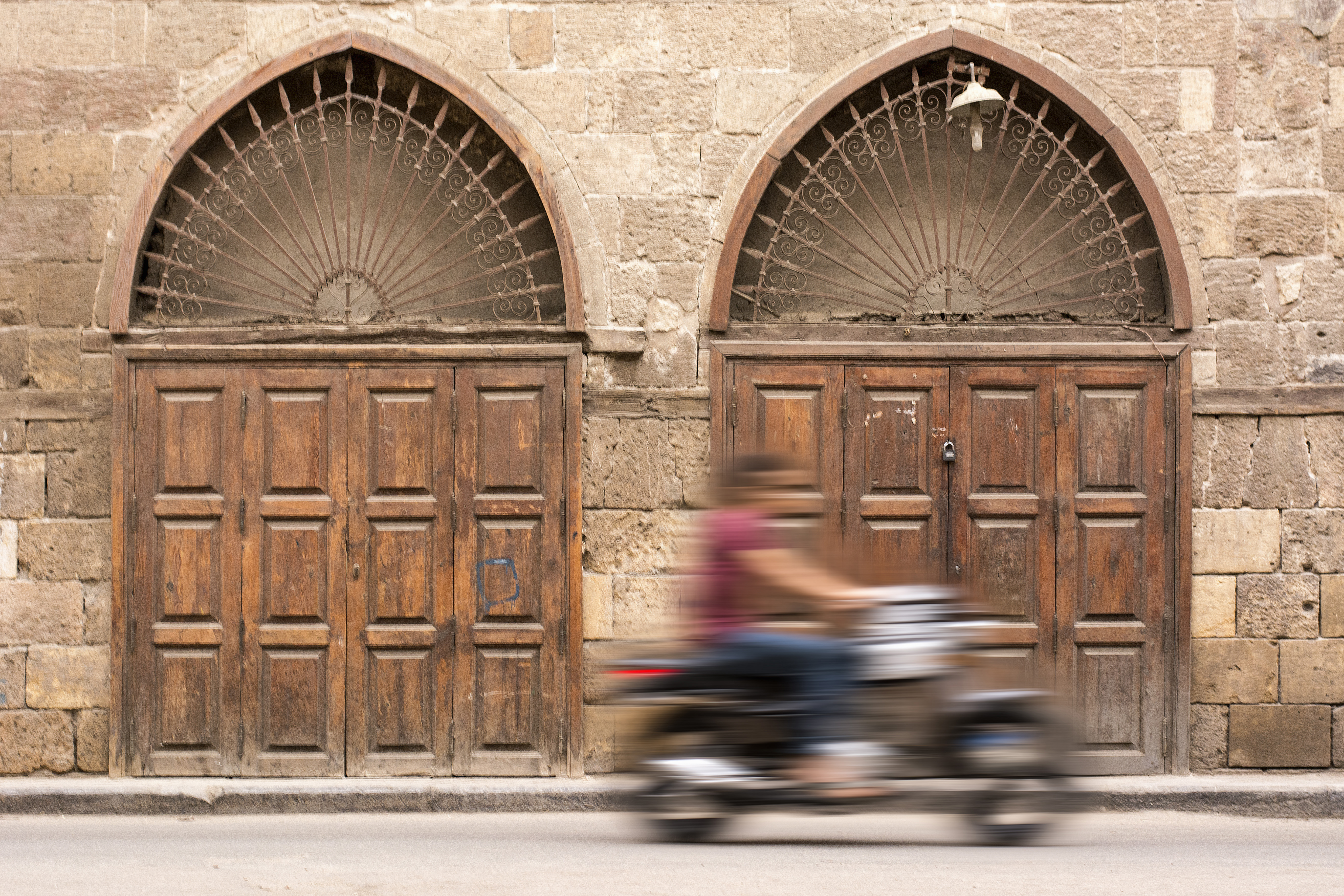 Life in motion story from old cairo streets - Cairo - Egypt This is an image with the theme "Africa on the Move or Transport" from: Egypt